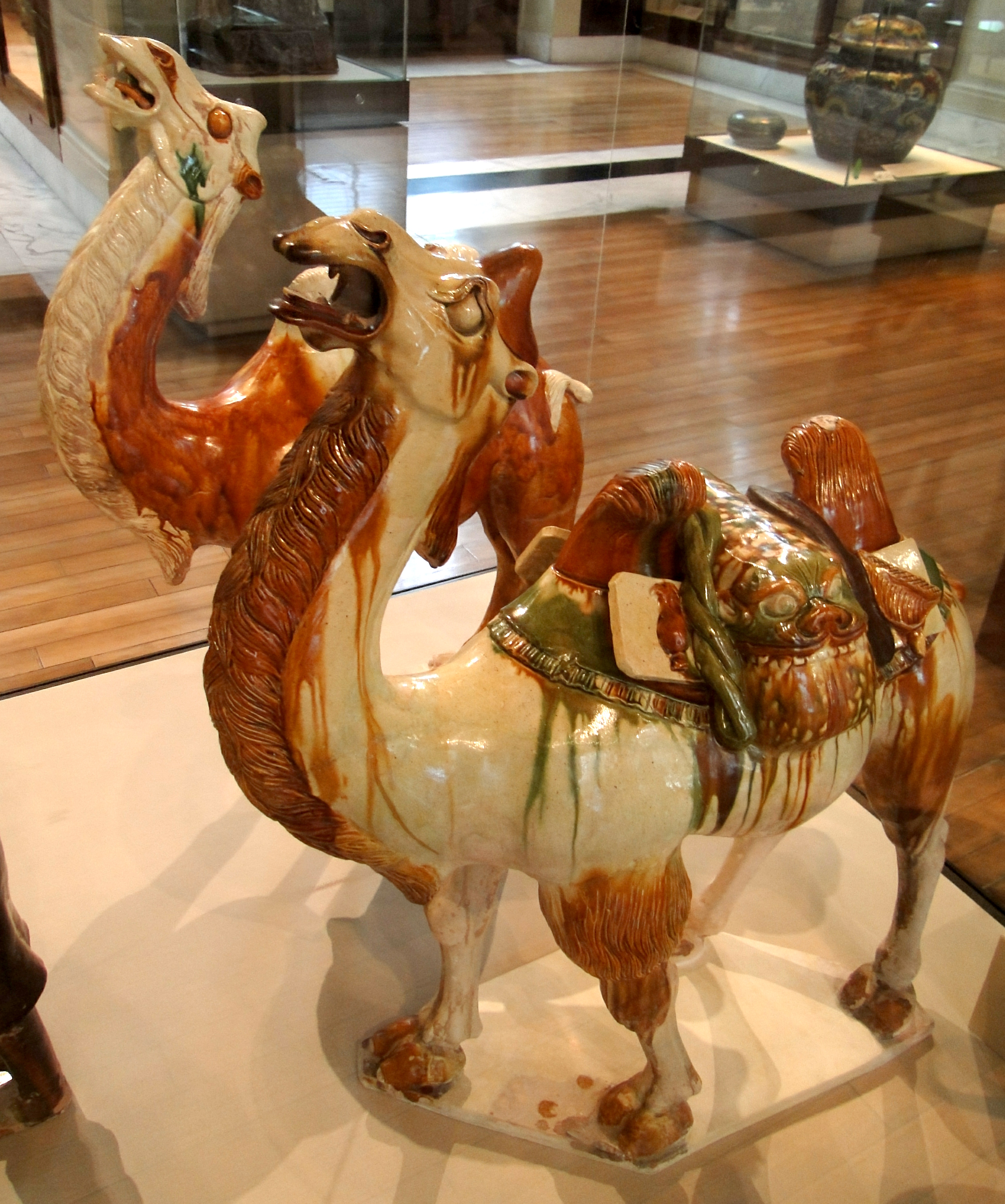 Camel Tang tomb figures. Buried in tomb of the Tang general Liu Tingxun who died in AD 728 at age of 72. Among the tallest known to have survived from this era